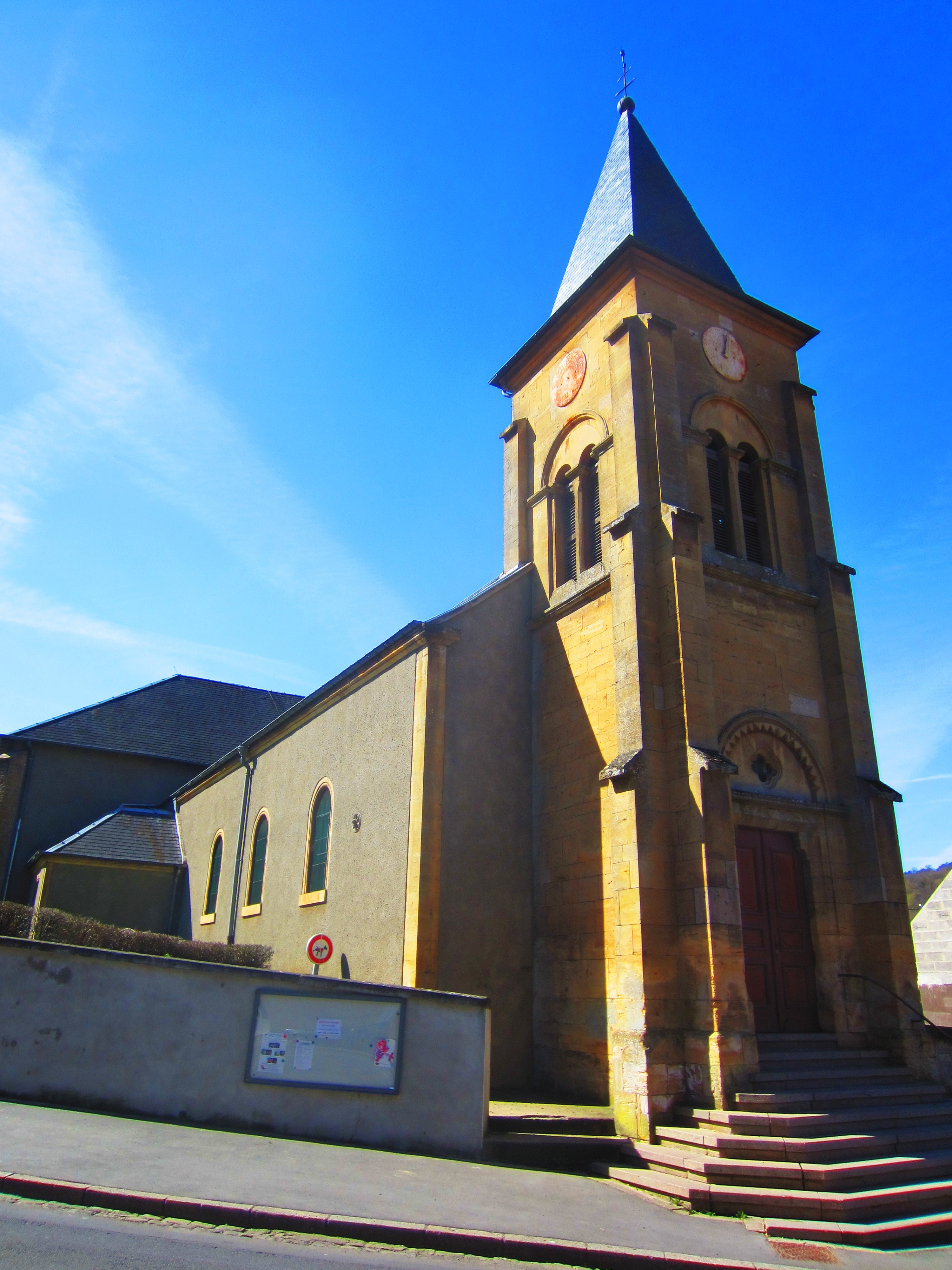 Rehon church